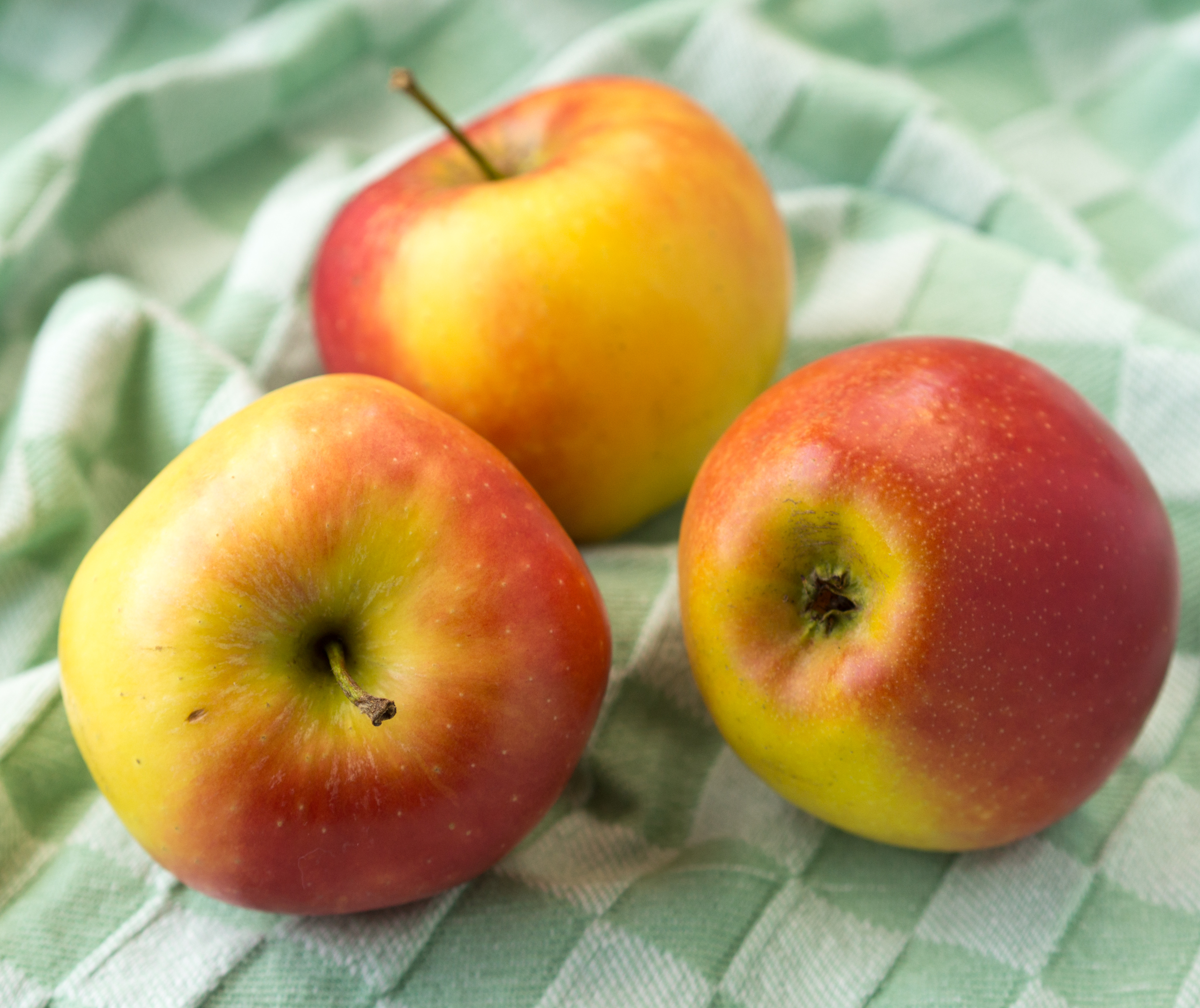 Kanzi (Nicoter) apples from the Netherlands